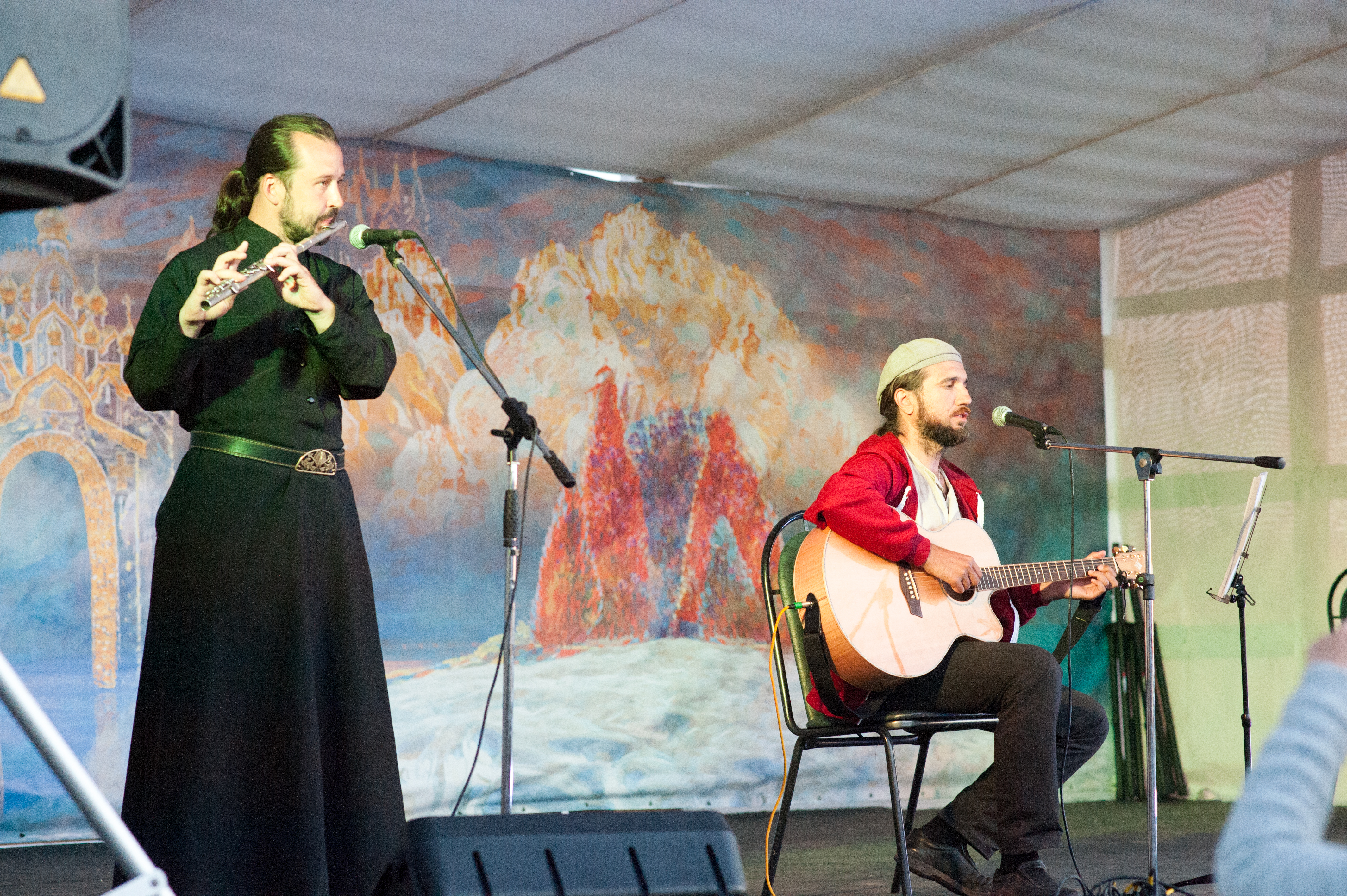 Фестивальные выступления. отец Виктор Никишов и отец Ярослав Ерофеев